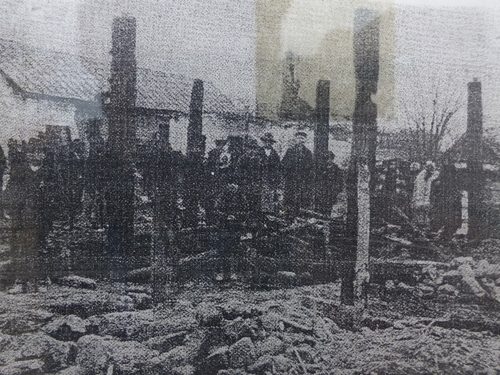 The location of Ököritó accident (today Ököritófülpös), in Hungary, 1910. March 27 1910 in Ököritó was a barn caught fire, where a dance ball was held. The end result of the tragedy: 312 death, 99 injuries